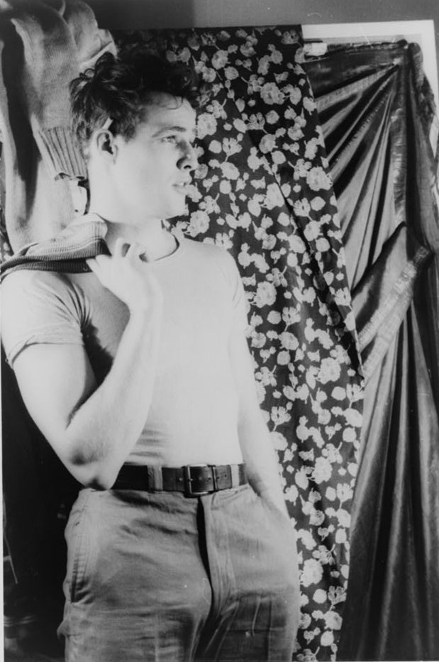 Portrait of Marlon Brando, in A Streetcar Named Desire, 1948 Dec. 27.